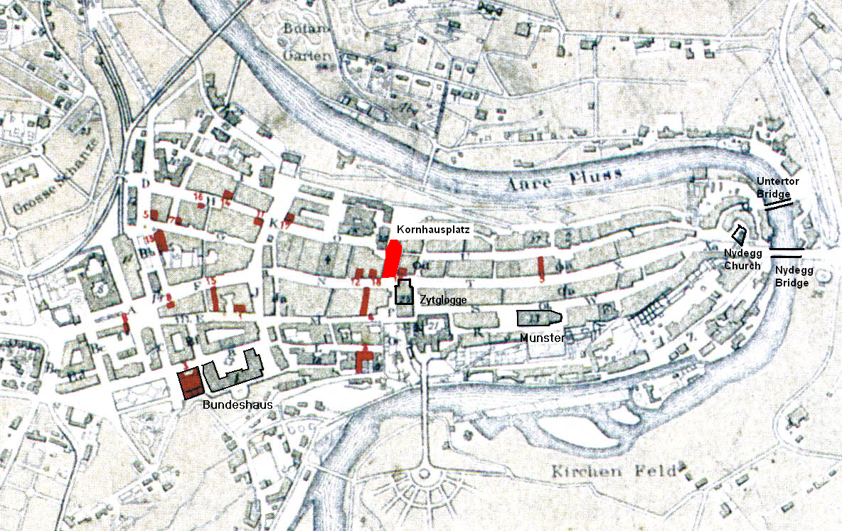 City plan of Bern, 1882. Scanned from BERN: Eine Stadt vor 100 Jahren, Bilder und Berichte; Peter Lauenberger, Emil Erne; München 1997; p. 7. Originally from Bern und seine Umgebungen, C.H. Mann, 1882 in the Alpines Museum of Bern. Due to the age of the image, it must be assumed that the author has been dead for more than 70 years. Copyright protection has therefore lapsed under Swiss copyright law (Art. 29 par. 3 URG).